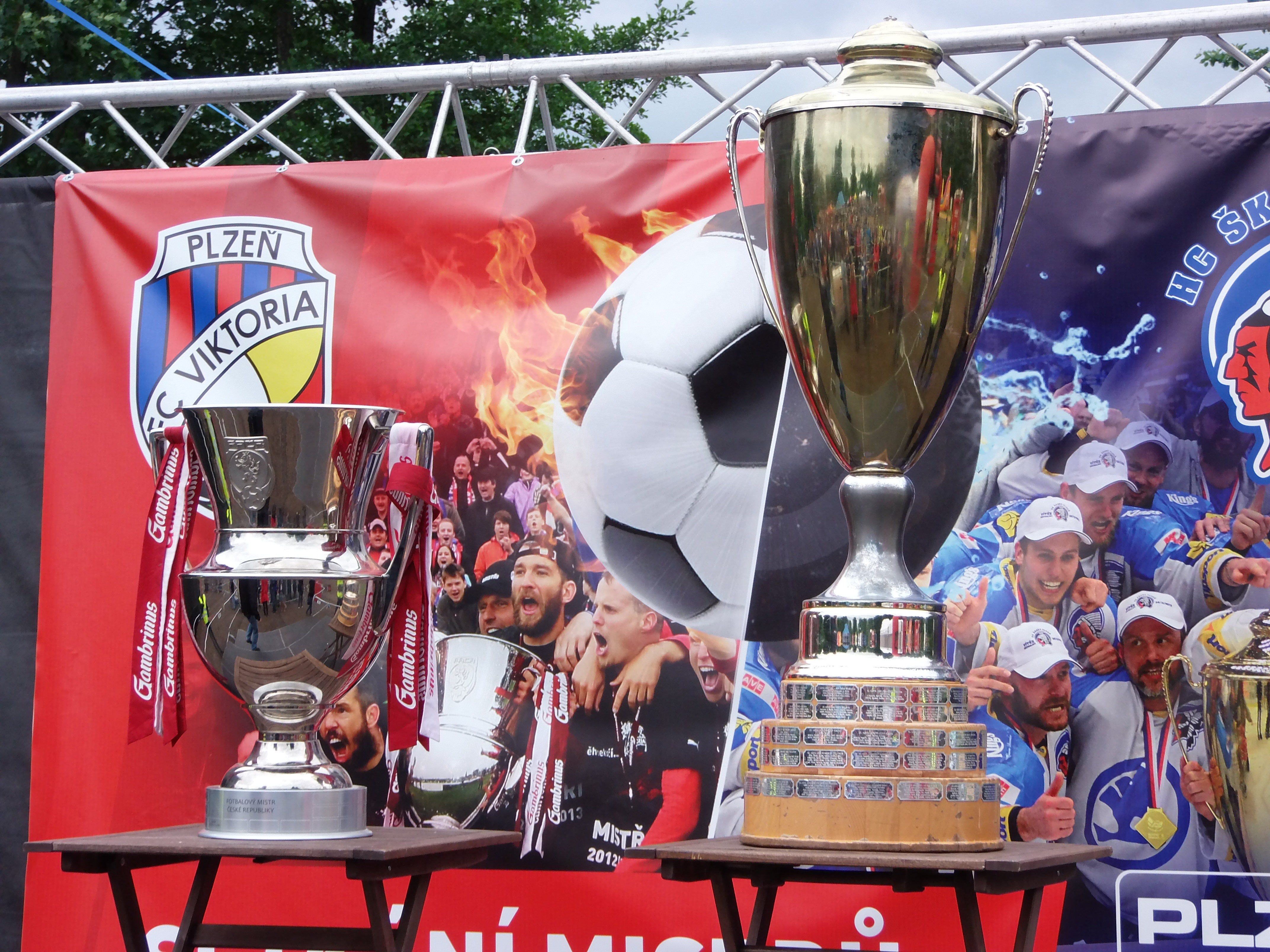 Trophies of Gambrinus liga (association football) and Czech extraliga (ice hockey) - Pilsen celebrates double, 2012/13 saison